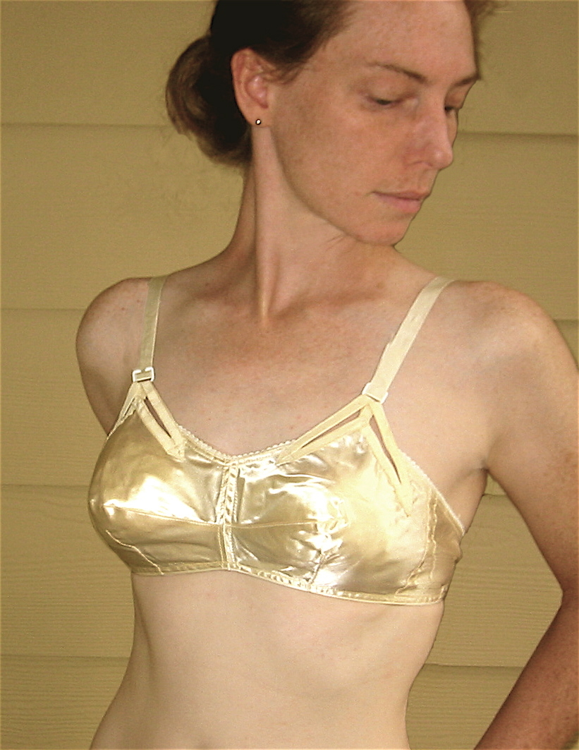 This is a photograph I took on Dec. 20, 2006 of a model wearing a rare 1950s Wonder-Bra. This brassiere was manufactured by D'Amour in the US. This Bra is part of the Wonderba history and is based on Israel Pilot's 1941 Patent, Image:Diagonal Slash Patent.jpg.